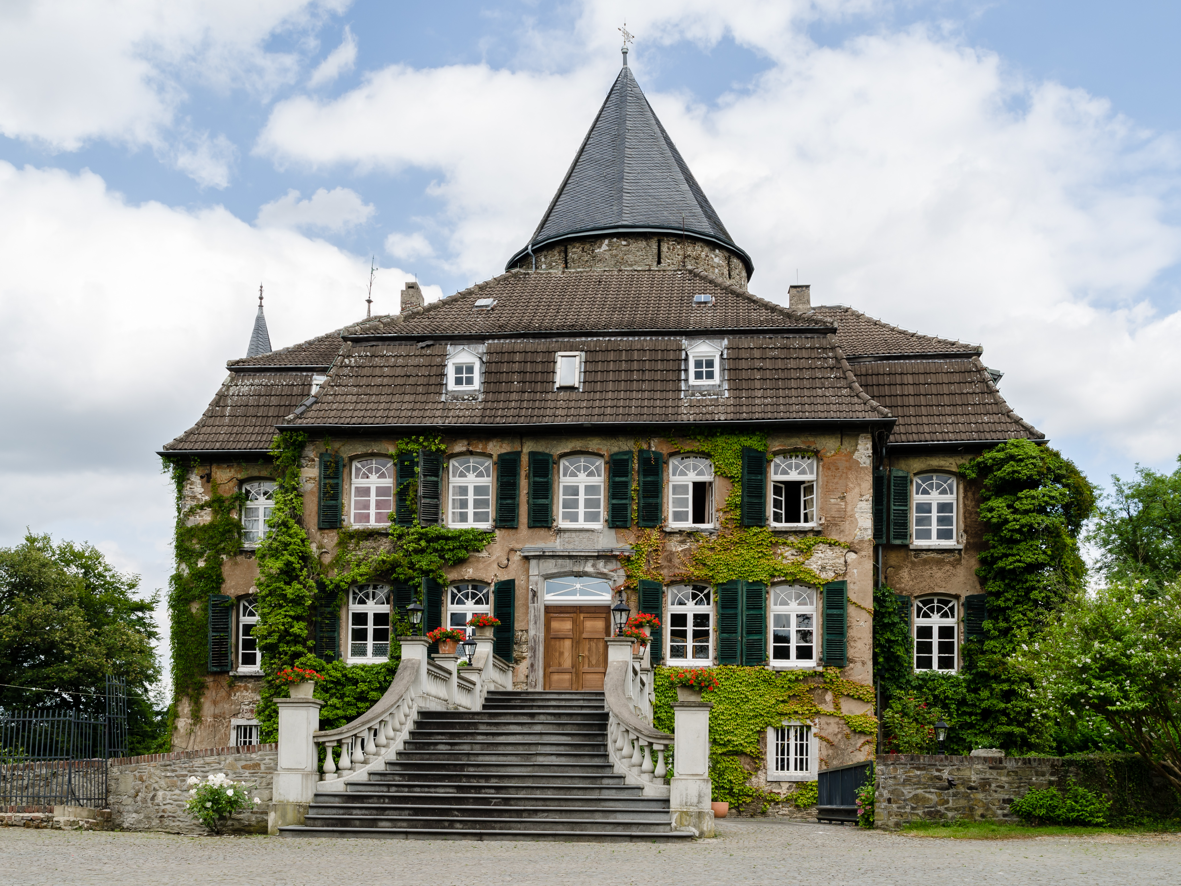 Castle of Linnep, front view